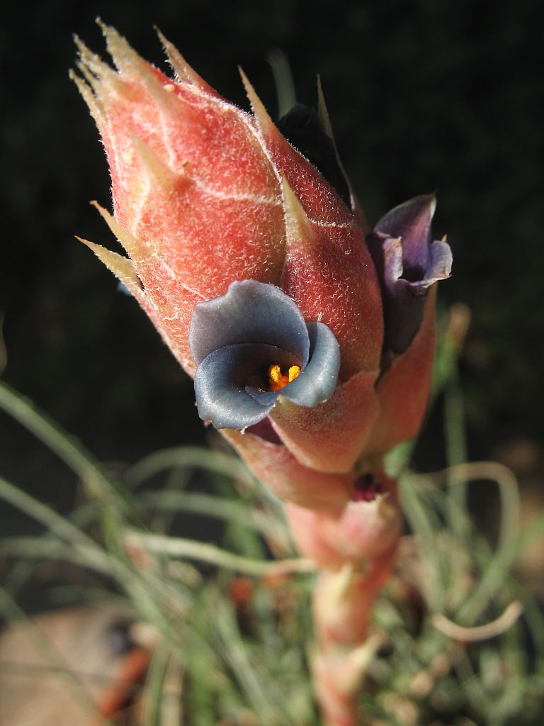 Puya prosanae in cultivation at the Botanical Garden of Heidelberg, Germany.